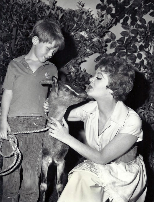 Photo of Ron Howard and Cara Williams from the television program Pete and Gladys. Gladys Porter agrees to temporarily take care of a young boy's pet goat.